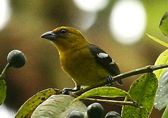 White-winged Tanager (Piranga leucoptera). A female at Milpe Bird Sanctuary, NW Ecuador.